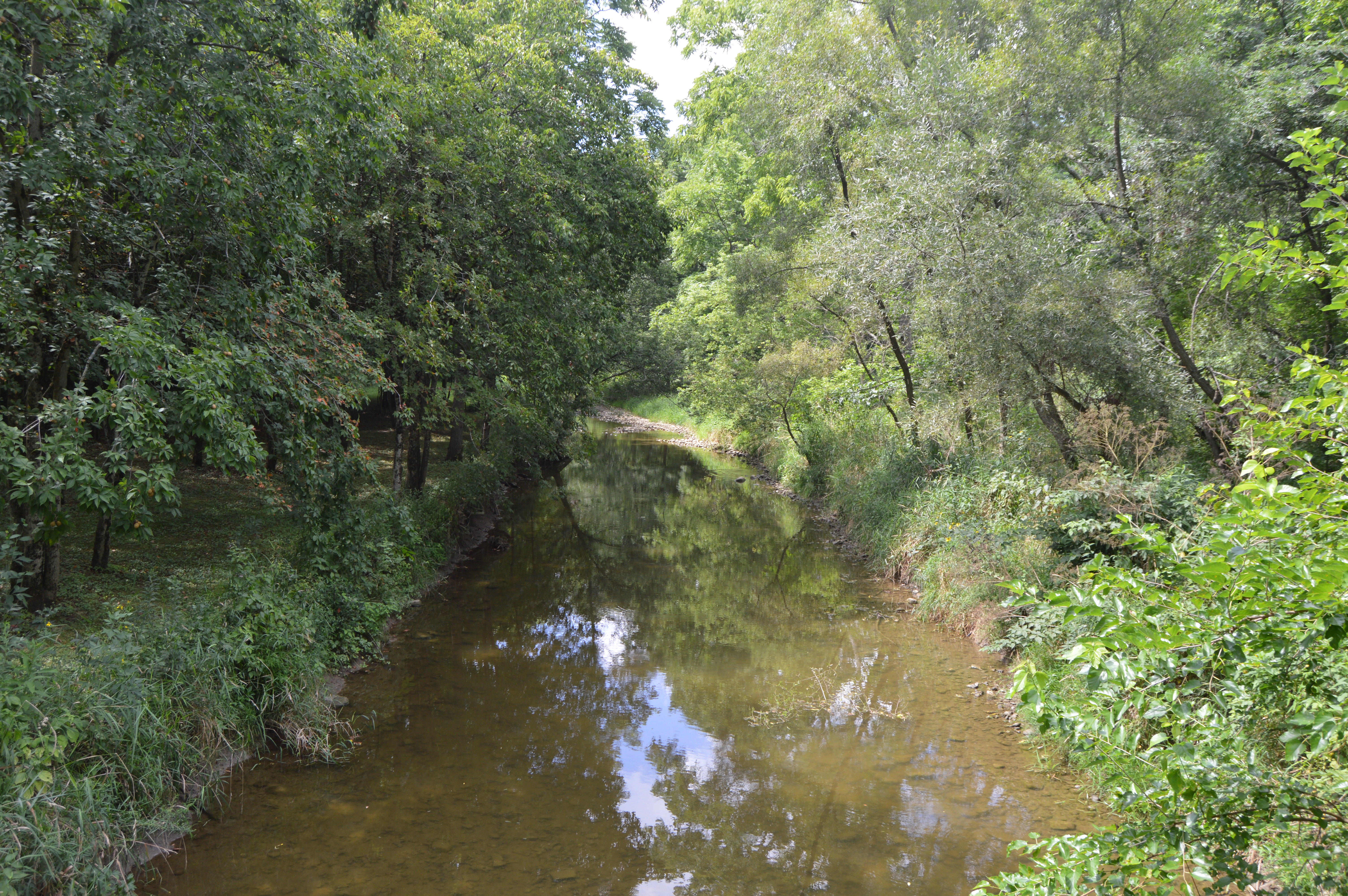 The infant Otter Fork of the Licking River, seen looking upstream from the site of the former Belle Hall Covered Bridge on Dutch Cross Road in Bennington Township, Licking County, Ohio, United States.